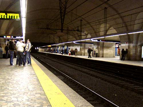 Metro of Rome, line B, station Termini.